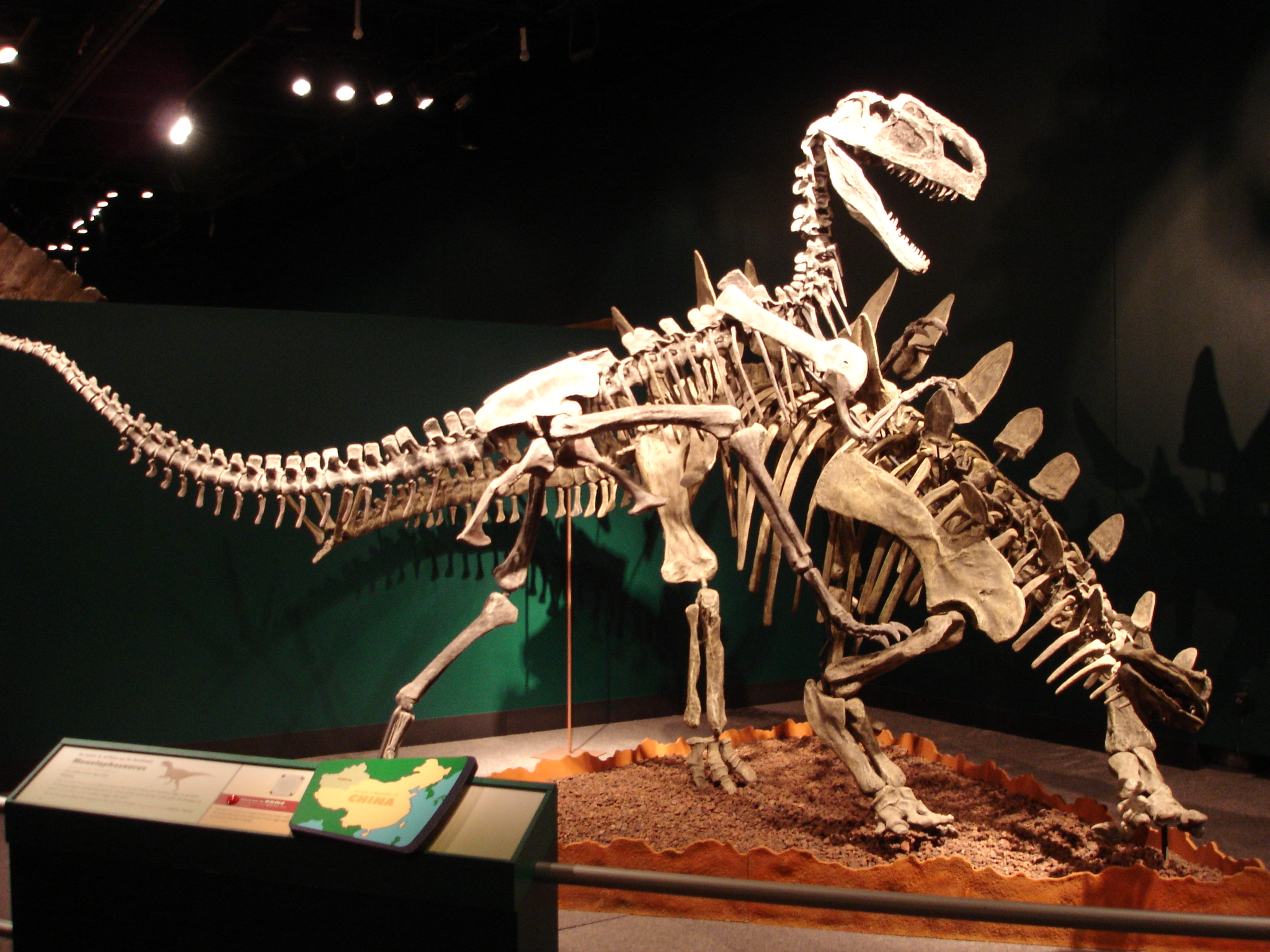 Mounted skeletons of Monolophosaurus and Tuojiangosaurus., Field Museum, Chicago, Illinois, USA